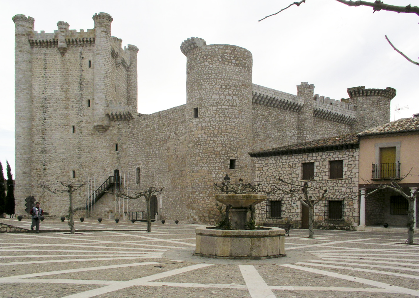 Torija castle, Province of Guadalajara, Spain.